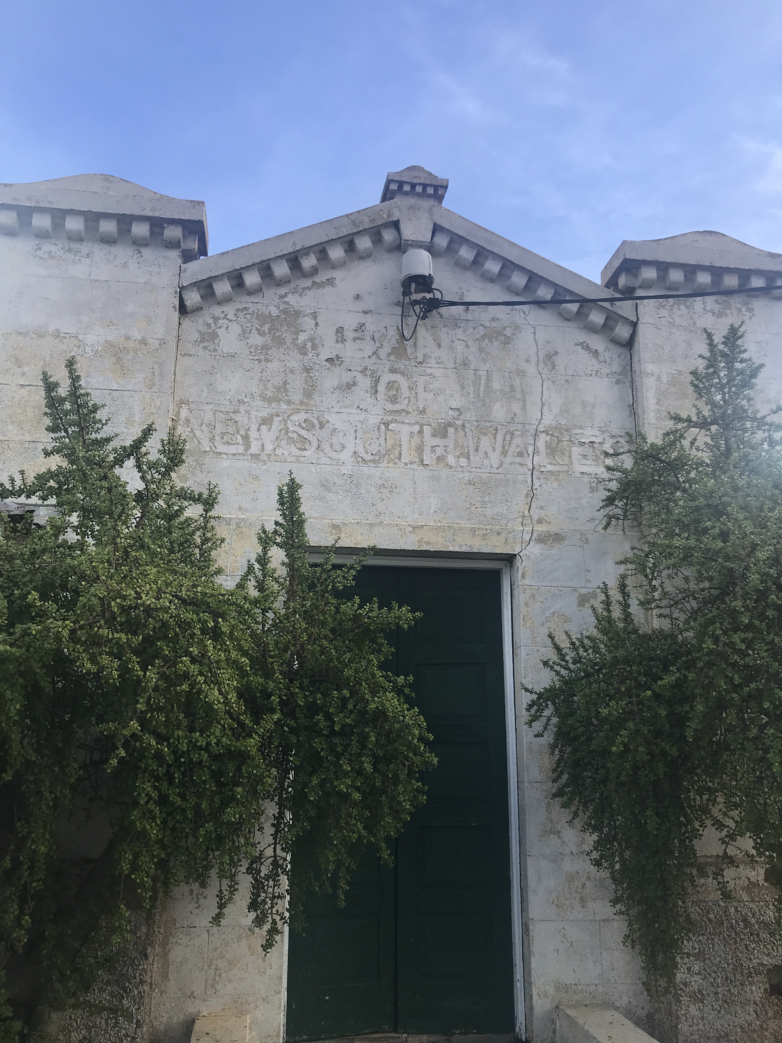 Signage on the former Bank of New South Wales, Garah, 2019. The building is now a private residence.